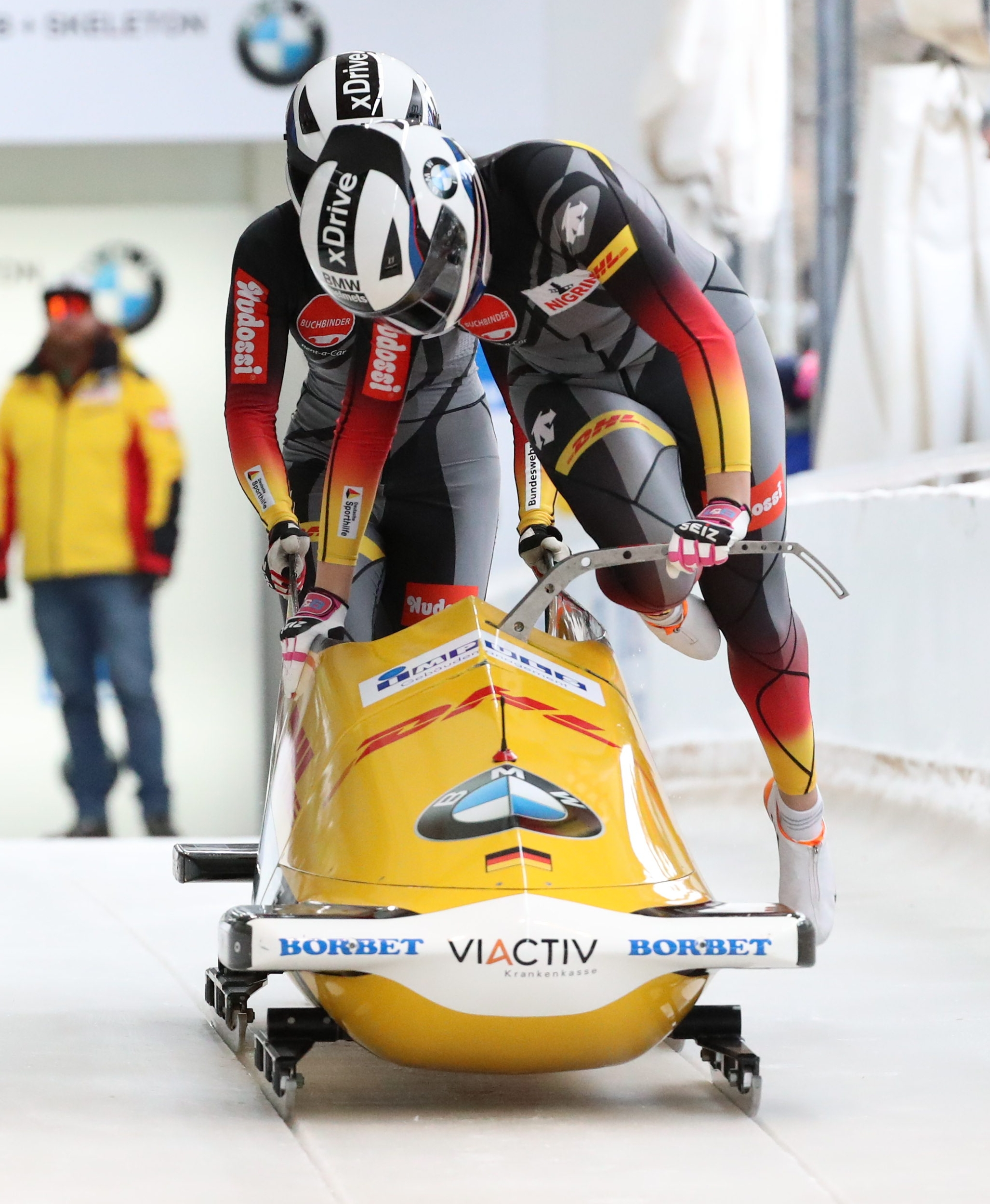 1st run at the 2-woman bobsleigh at the Bobsleigh and Skeleton World Championships 2020 in Altenberg